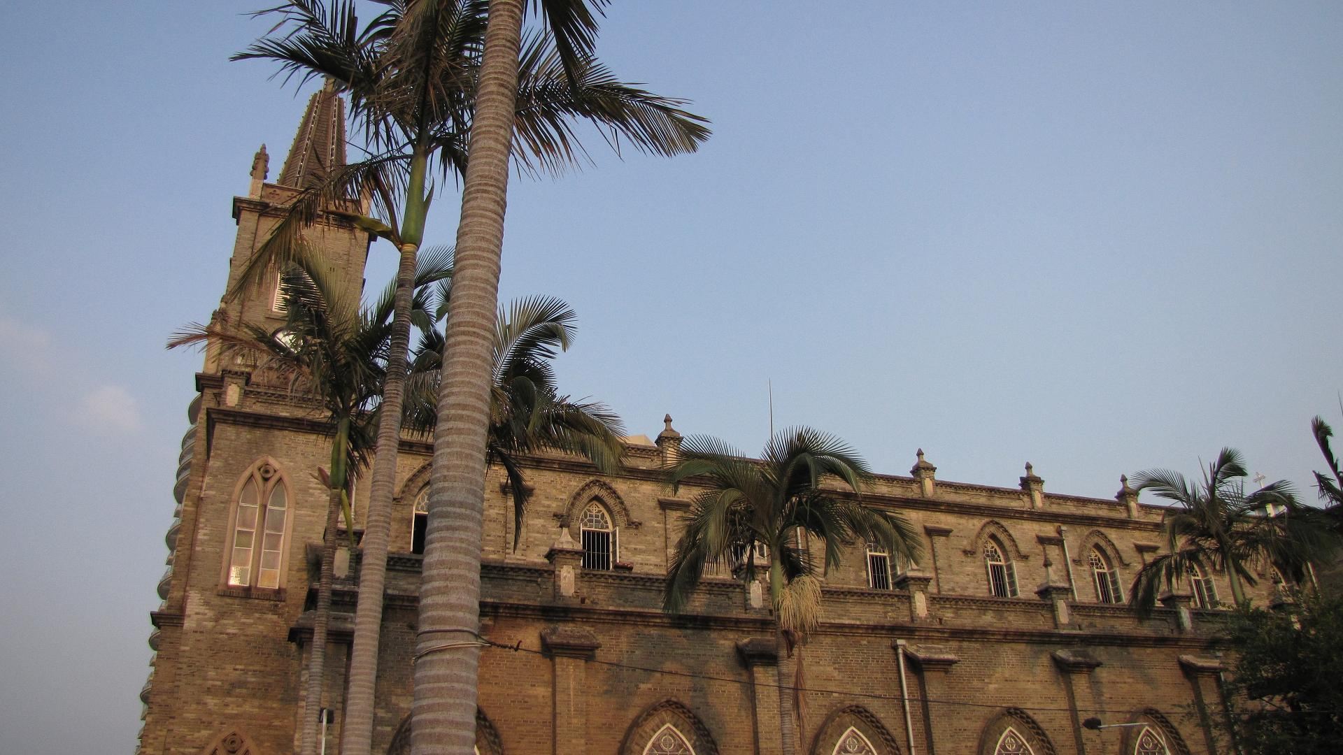 Saint Dominic Cathedral of Fuzhou (Fanchuanpu Cathedral)